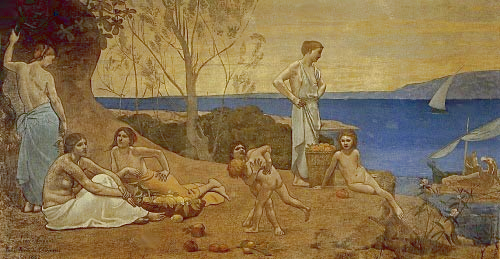 The Happy Land